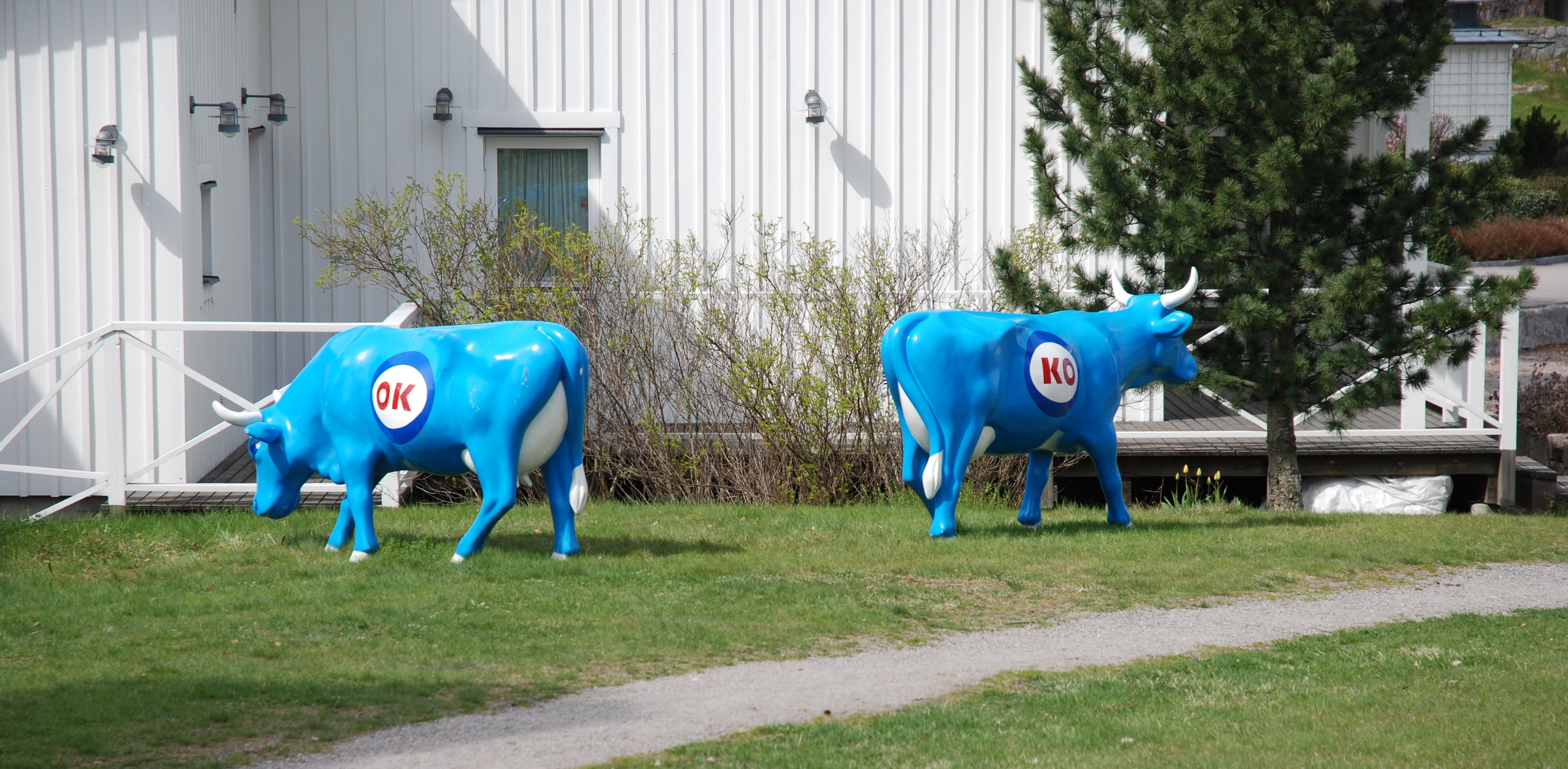 Homage 2 and Homage 1, cows of CowParade, Saltsjöbaden, Sweden. Artist: Martin Wickström This photo is not taken at the temporary exhibition in 2004, when the two cows were exhibited together outside the National Gallery at Blasieholmen i Stockholm, but in 2009. At that time the were permanently exhibited since many years outside Vår Gård in Saltsjöbaden in Nacka Municipality. The Martin Wickström cows were at the Cow Parade sponsored by the Oil company OK (now OKQ8).